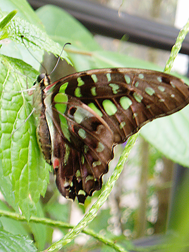 Image taken at Butterfly World Tailed Jay, Graphium agamemnon